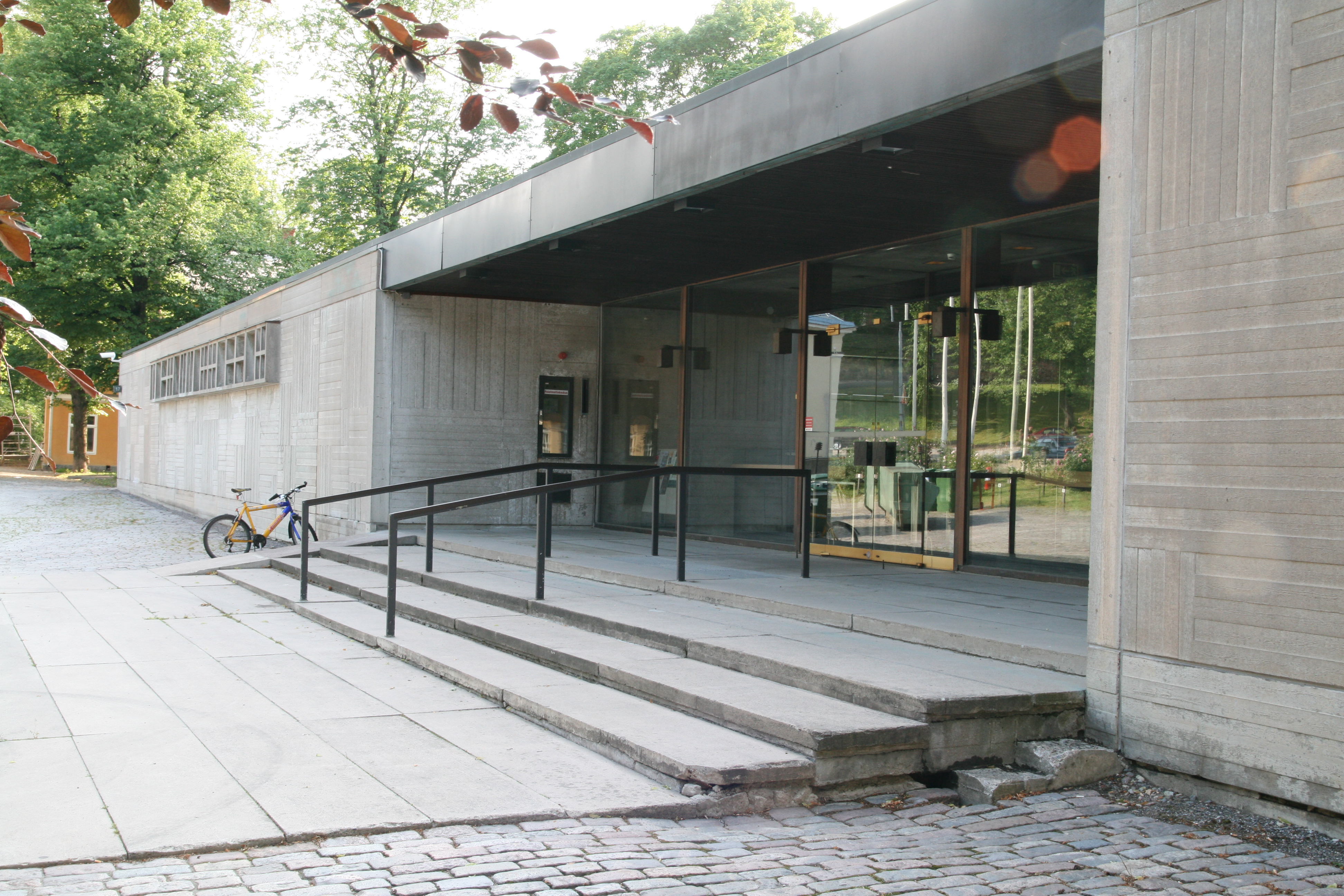 The Sibelius Museum in Turku, Finland.